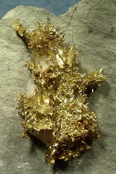 Gold Locality: 813 Pit, Olinghouse District, Washoe County, Nevada, USA (Locality at ) Size: 4.7 x 4.2 x 3.0 cm. An Olinghouse gold specimen, which features large gold leaves. The leaves reach 6 mm! This piece is covered with scintillating leaves, spinel-twinned gold crystals and gold wires. The gold is etched out of the cream-colored calcite that fills the vugs in the porphyritic host rock. Ex. Scott Kleine Collection.